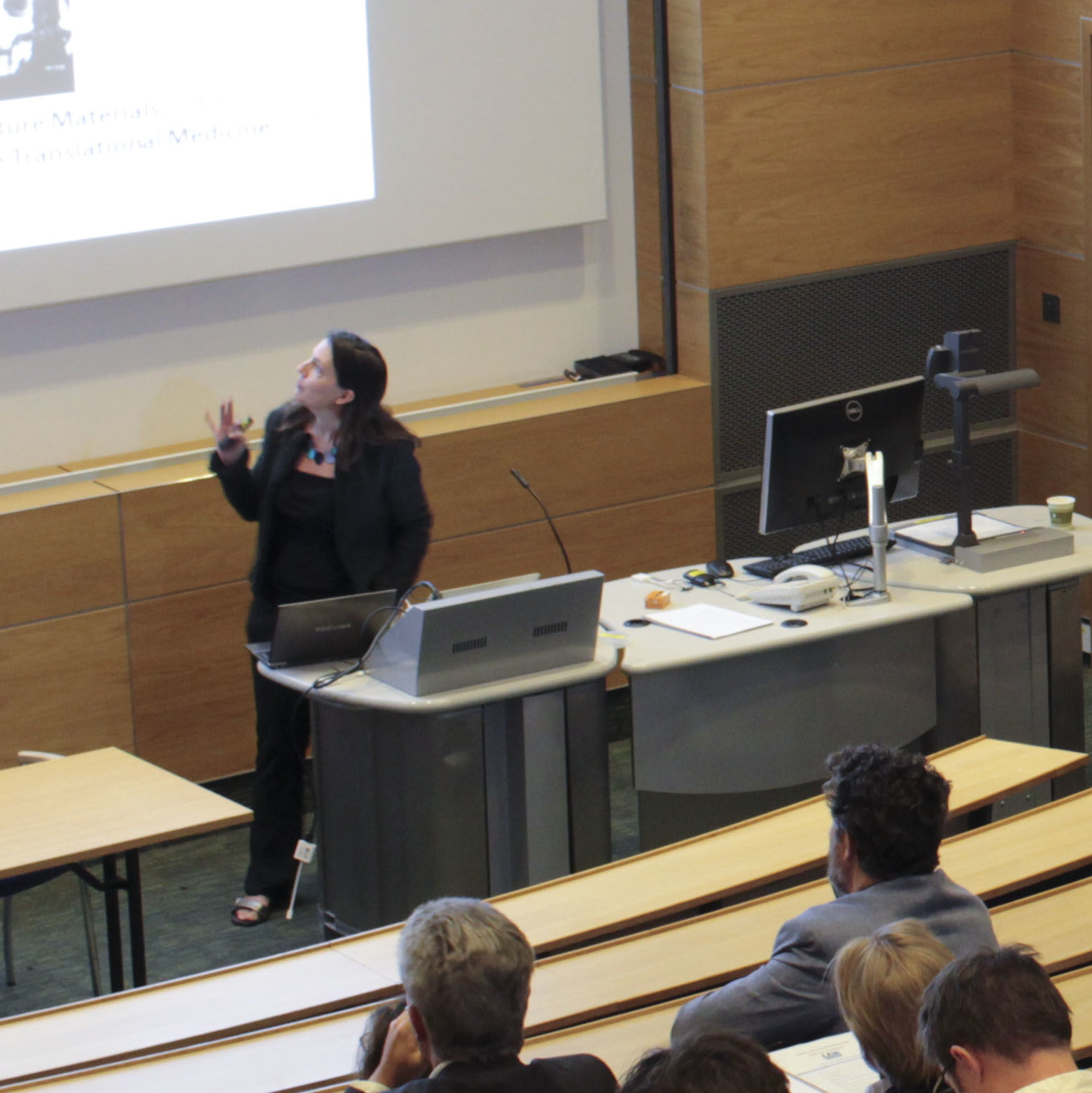 LCN 10th Anniversary - Prof Molly Stevens Director of Biomedical Material Sciences, Institute of Biomedical Engineering and LCN, Imperial College